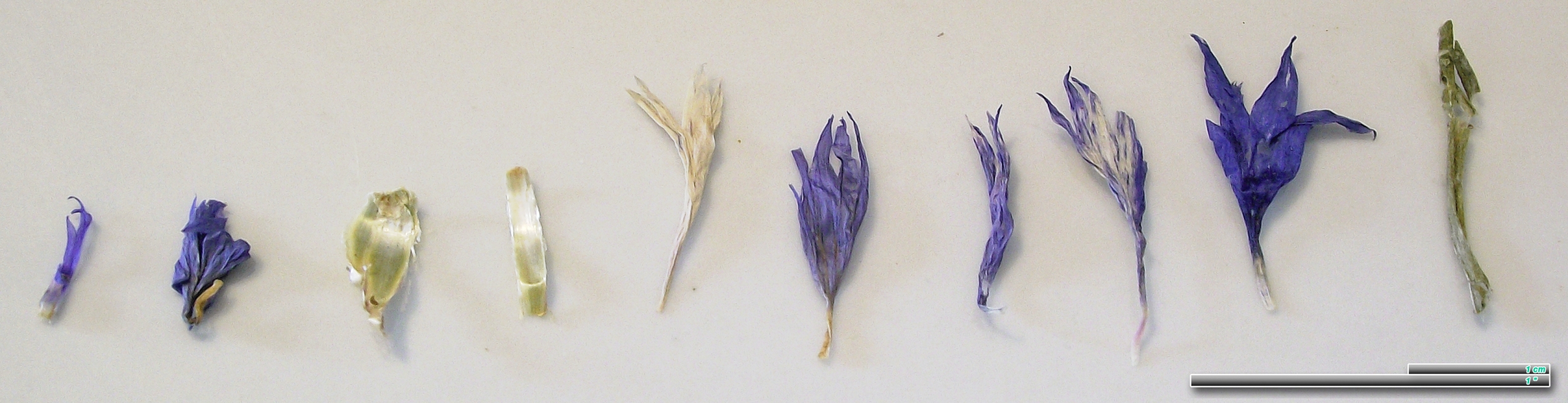 dried Centaurea cyanus (Cornflower, Bachelor's button, Bluebottle, Boutonniere flower, Hurtsickle, Cyani flower)